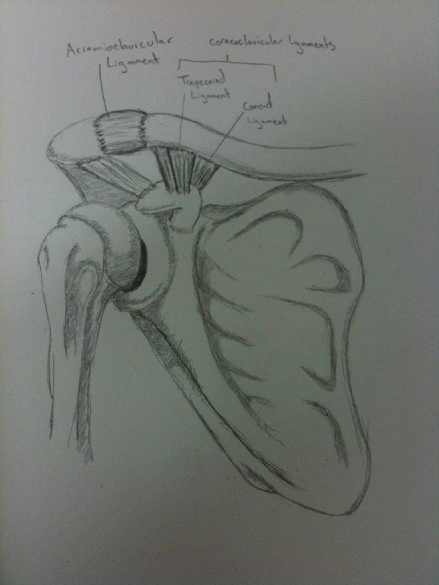 A hand drawn picture of a right shoulder/scapula structure with all AC ligaments.